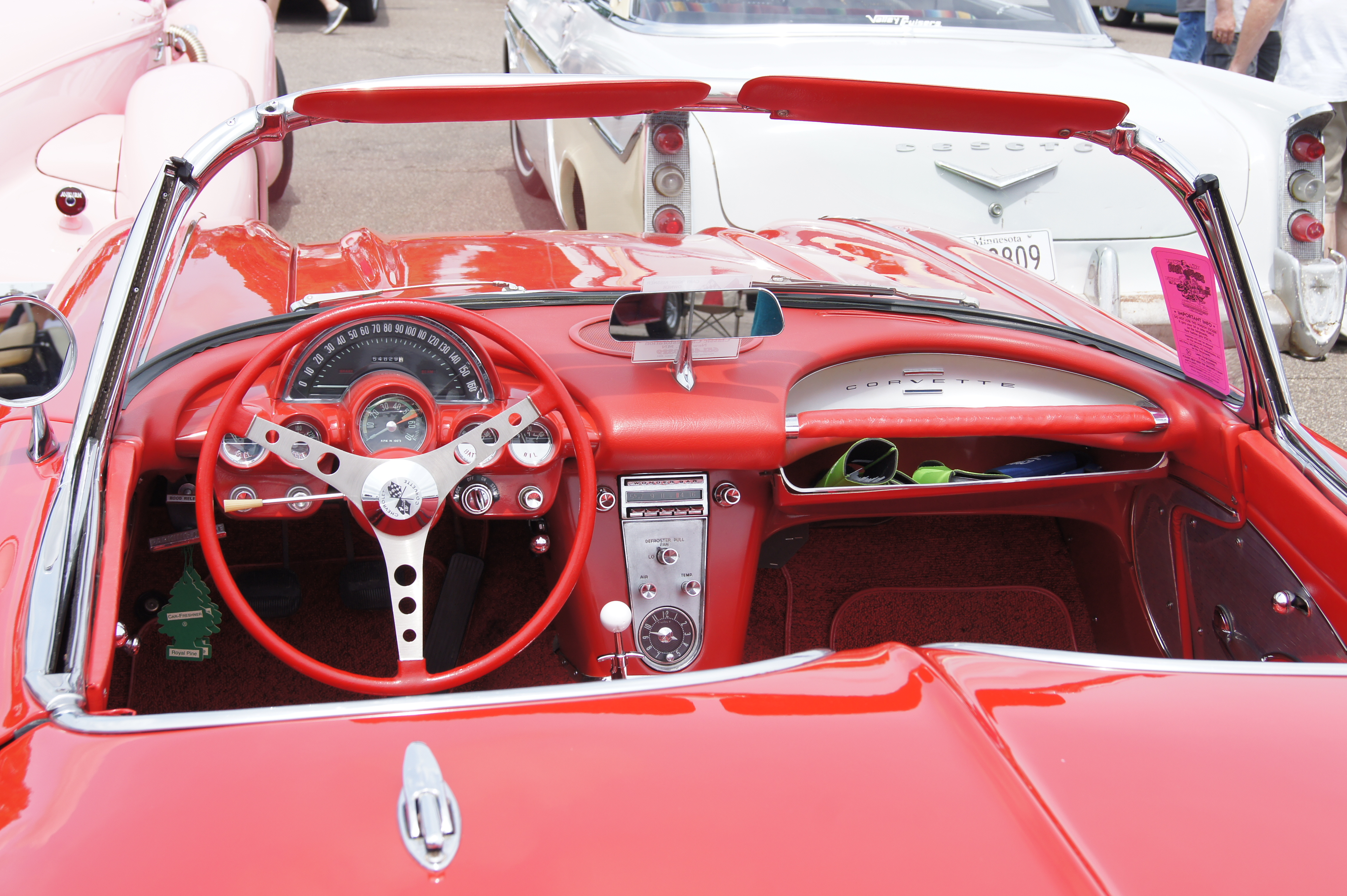 MSRA “BACK TO THE 50′s” 40th ANNIVERSARY June 21-23, 2013 State Fairgrounds St. Paul Minnesota More Car Pictures